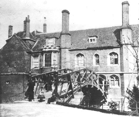 Picture of the original Mathematical Bridge at Cambridge. Exact date is not known, but the steps on the bridge indicate the picture was taken before construction of the new bridge in 1867.